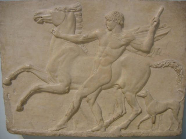 Youth with his dog, mastering a horse with a metal bridle (now lost). Marble relief, Roman artwork inspired by Greek classical models, ca. 125 AD. From the Villa Adriana, near Tivoli. Roman gallery, British Museum (London).